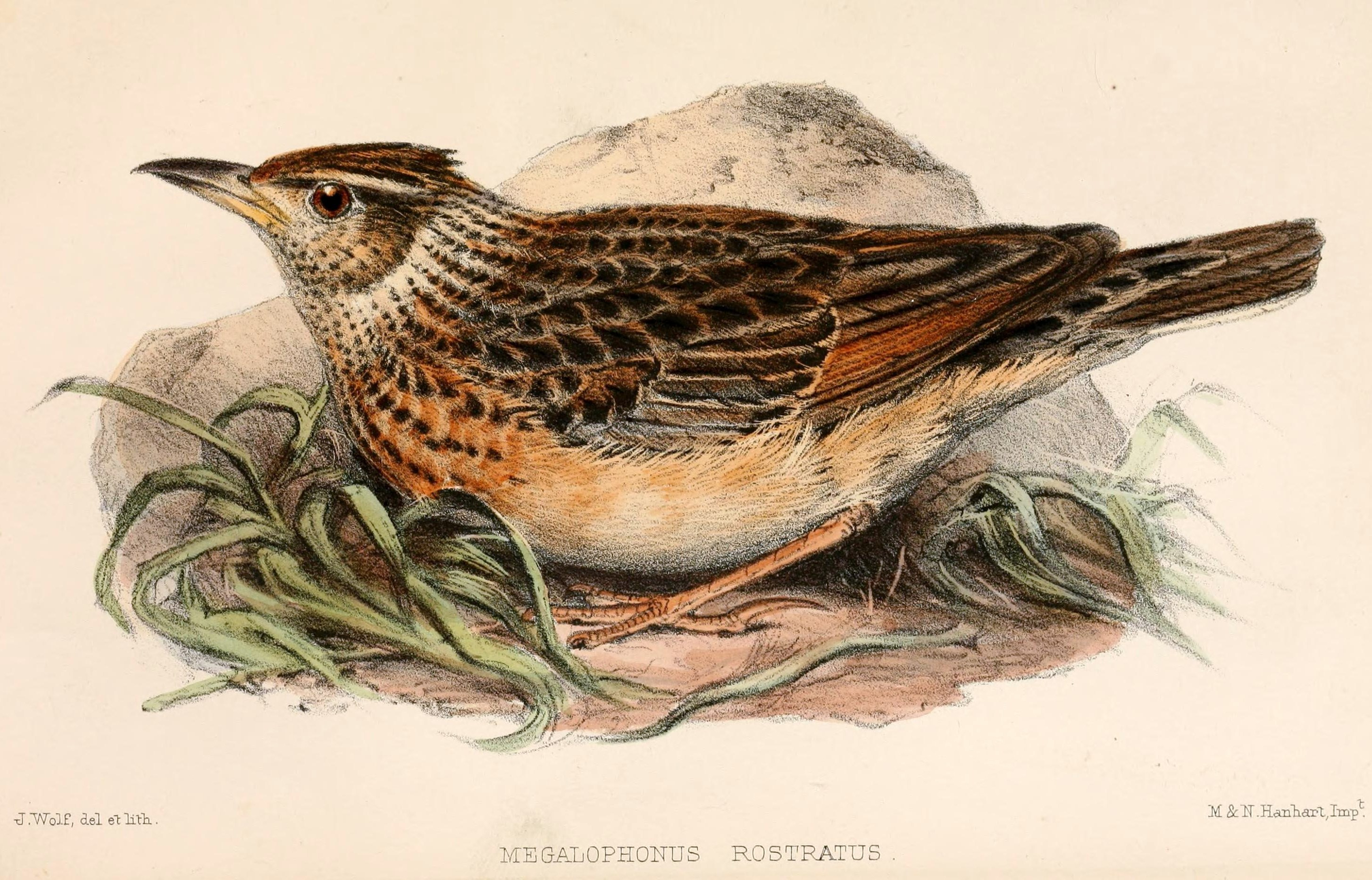 « Megalophonus rostratus » = Mirafra africana africana (Subspecies of Rufous-naped Lark)